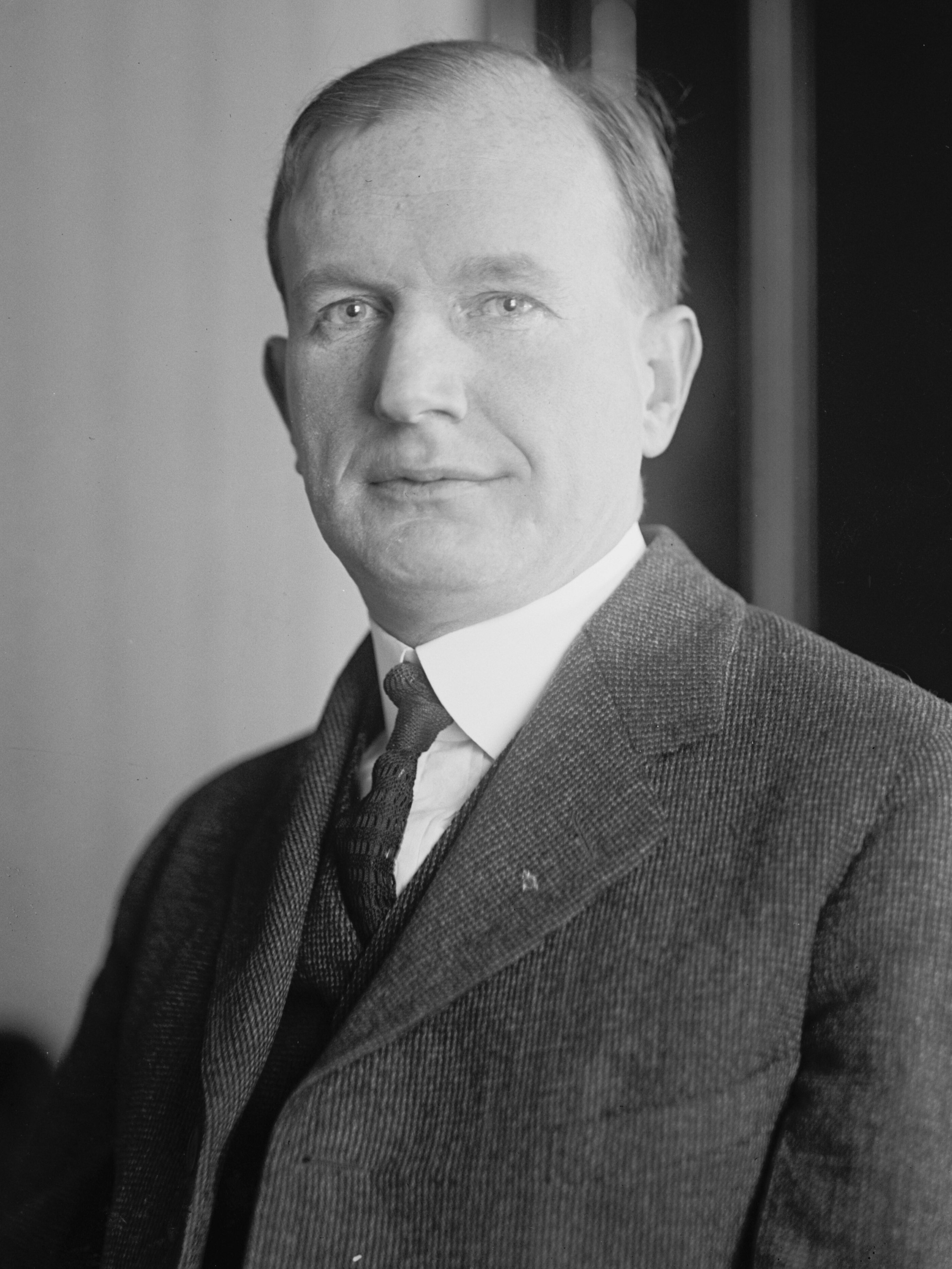 Title: Sen. B.K. Wheeler, 12/8/22 Abstract/medium: National Photo Company Collection (Library of Congress) Physical description: 1 negative